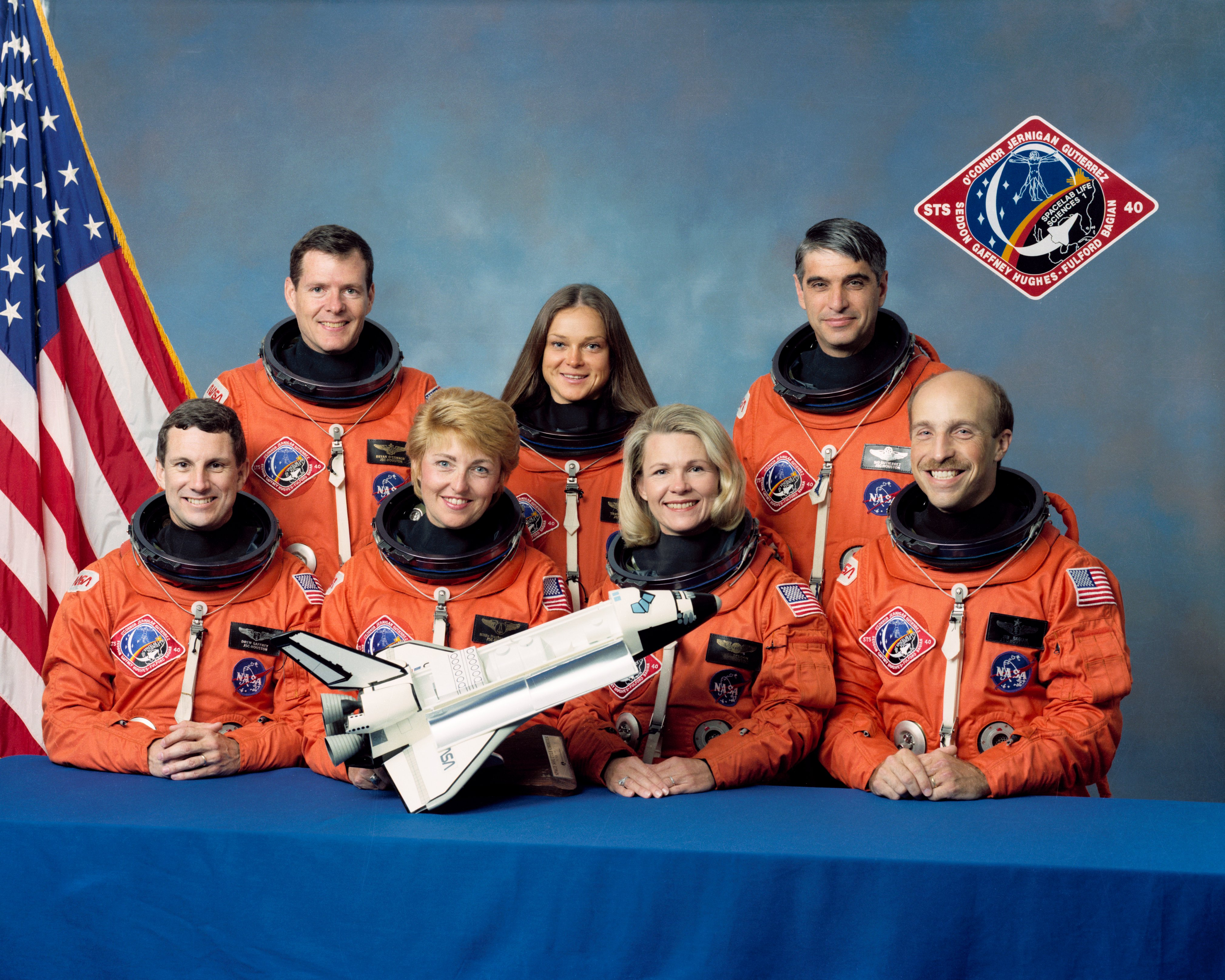 The STS-40 crew portrait includes 7 astronauts. Pictured on the front row from left to right are F. Drew Gaffney, payload specialist 1; Milli-Hughes Fulford, payload specialist 2; M. Rhea Seddon, mission specialist 3; and James P. Bagian, mission specialist 1. Standing in the rear, left to right, are Bryan D. O'Connor, commander; Tamara E. Jernigan, mission specialist 2; and Sidney M. Gutierrez, pilot. Launched aboard the Space Shuttle Columbia on June 5, 1991 at 9:24; am (EDT), the STS-40 mission was the fifth dedicated Spacelab Mission, Spacelab Life Sciences-1 (SLS-1), and the first mission dedicated solely to life sciences.